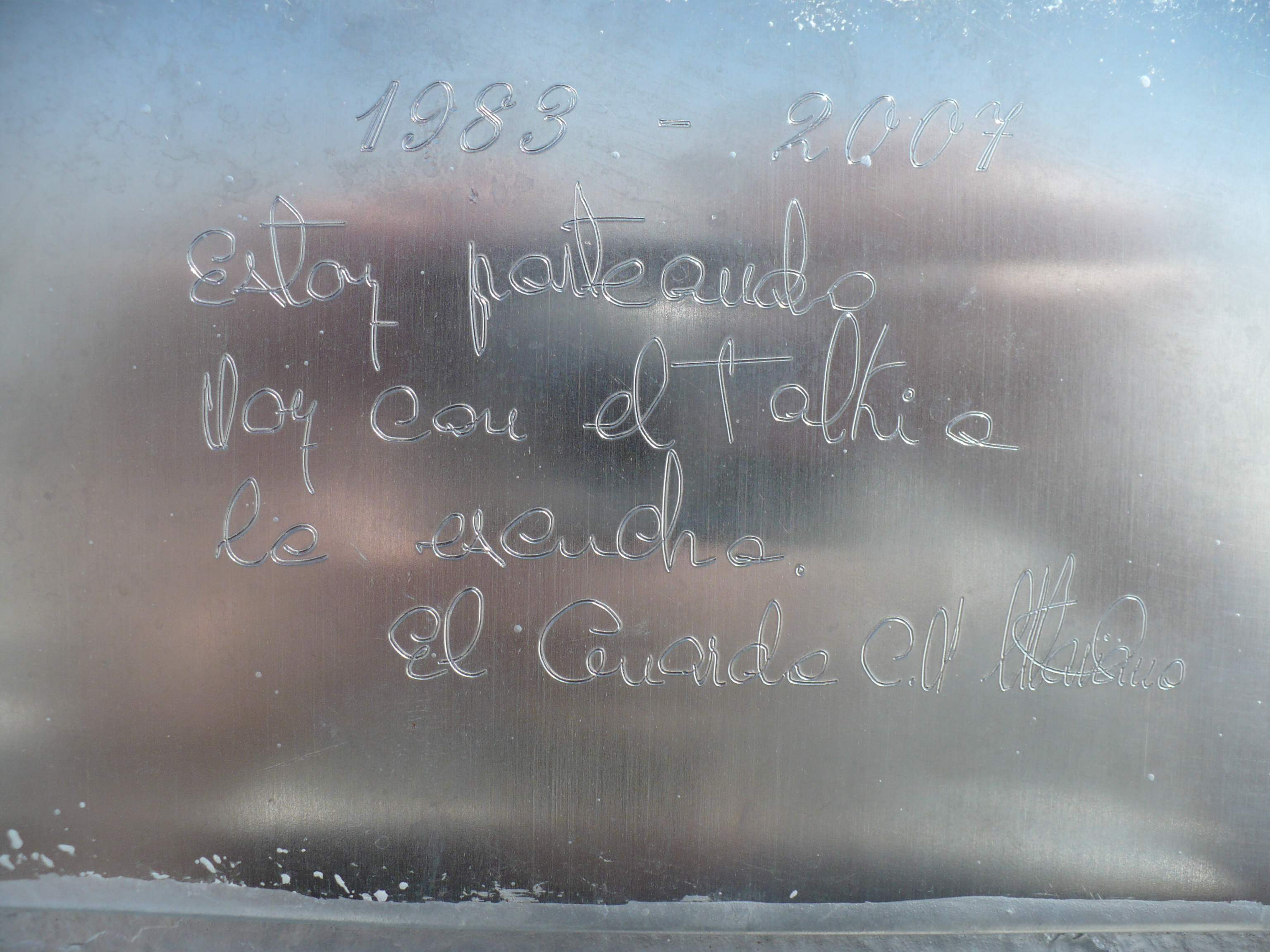 Inscription in memory of Mariano, guard at Cabaña Verónica mountain hut (Cantabria).